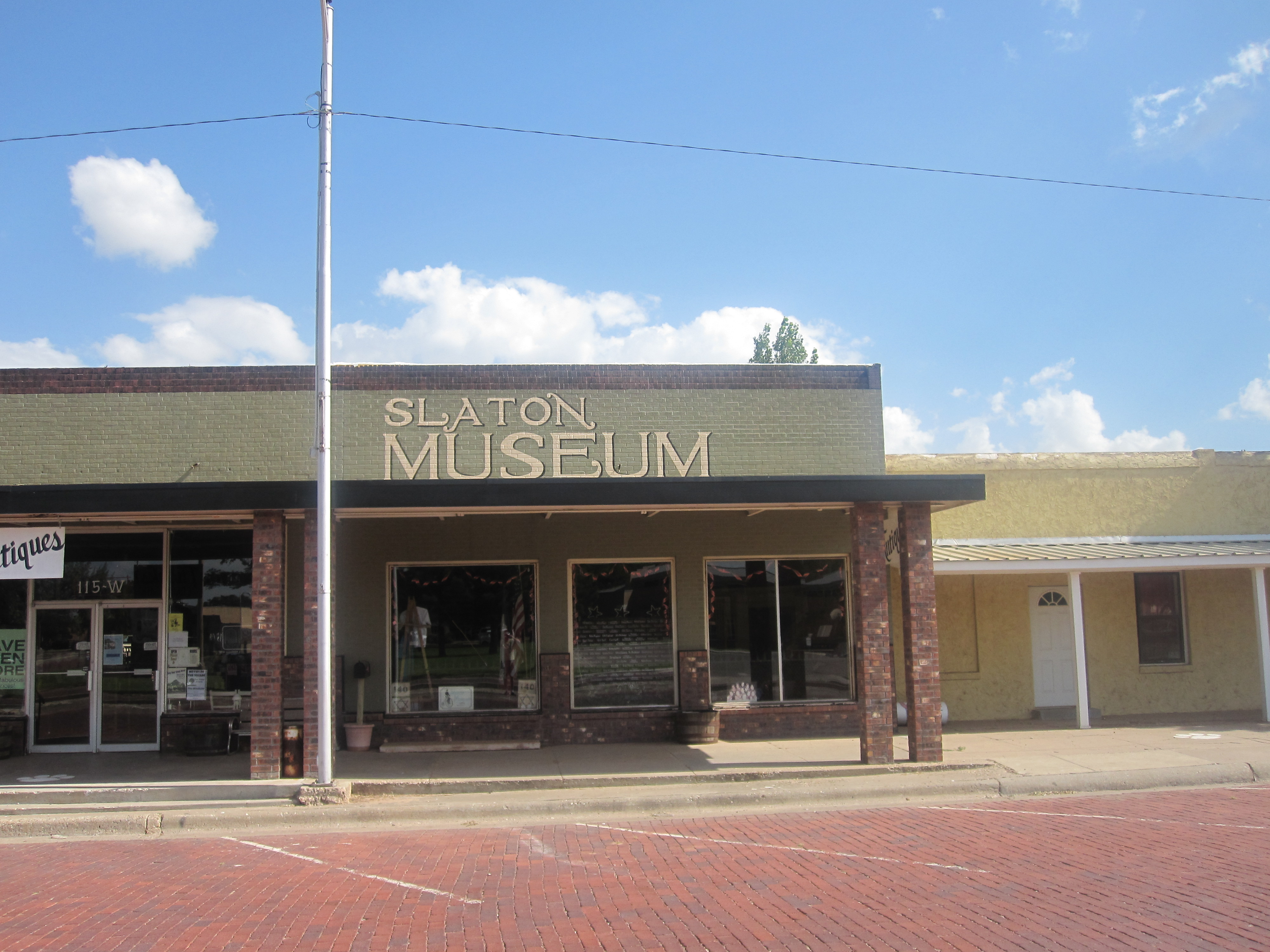 I took photo with Canon camera in Slaton, TX.